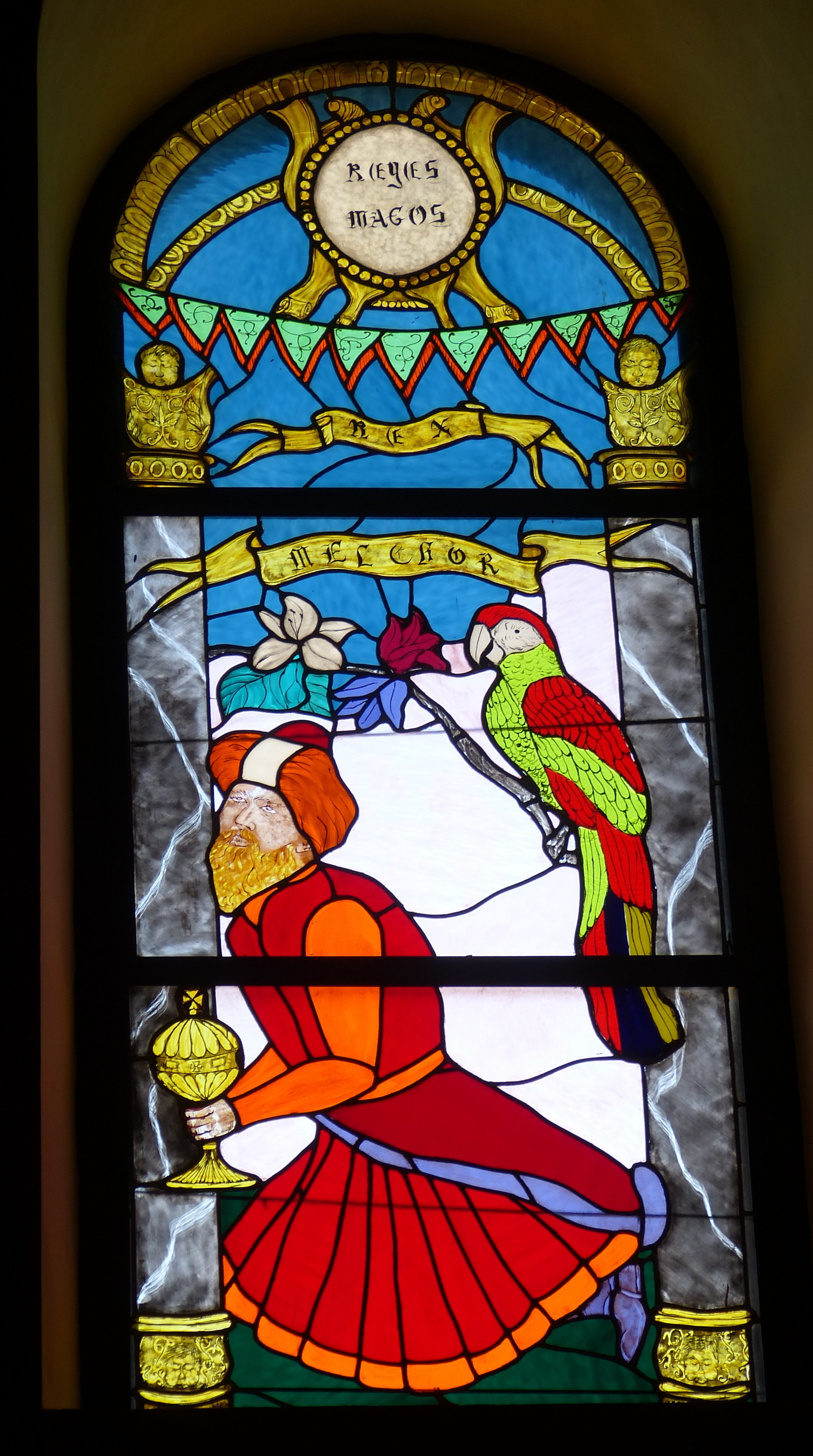 Agaete ( Gran Canaria ). Iglesia de la Concepción ( 1875 ) - Stained glass window showing Melchior, one of the Three Wise Men.